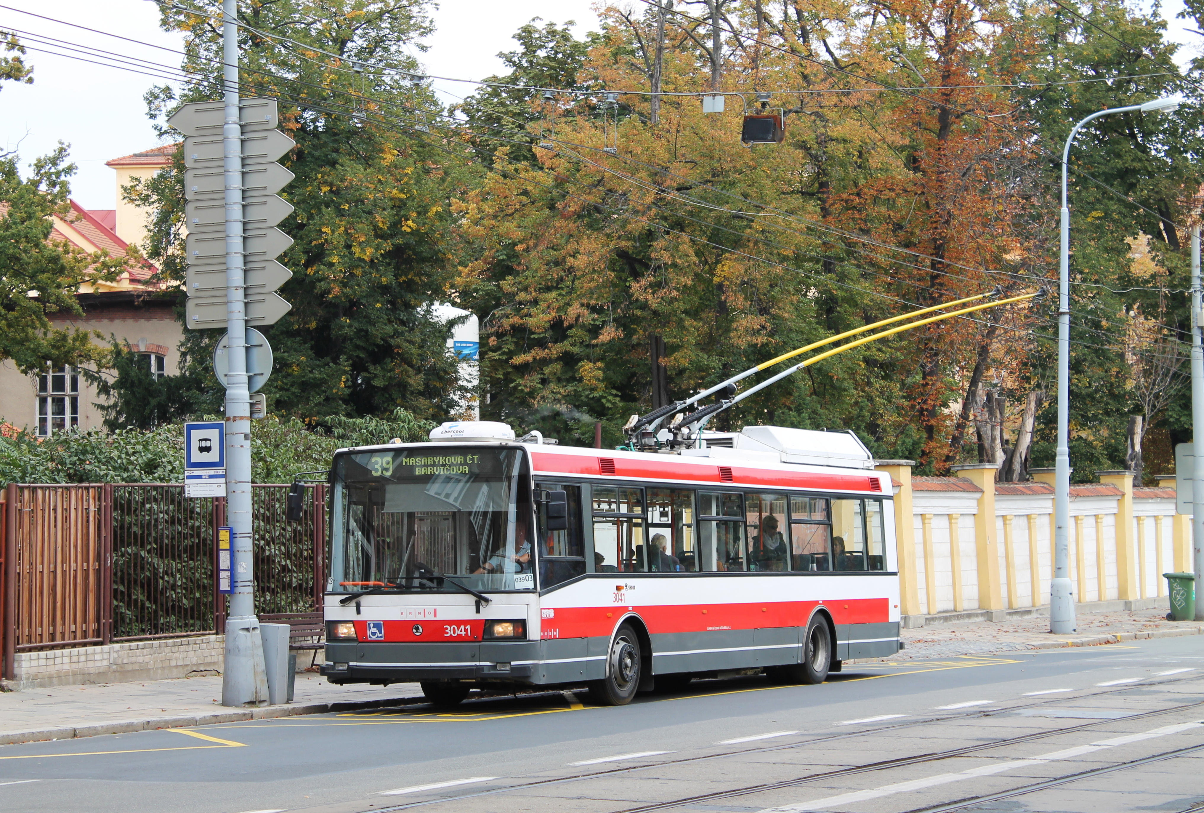 Škoda 21Tr No. 3041 trolleybus of Dopravní podnik města Brna, Brno, Czech Republic - Google Maps - Google Earth